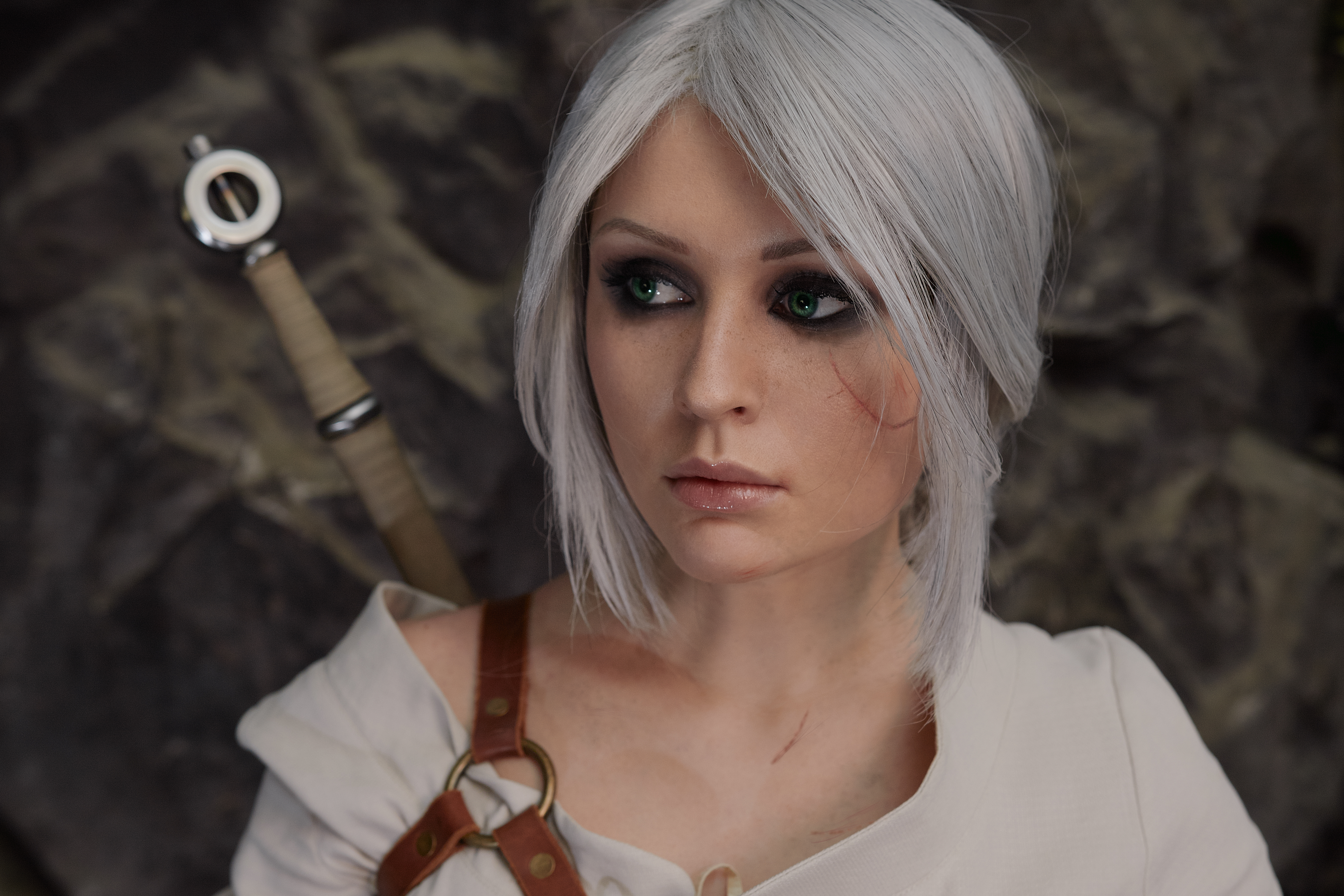 Model Galina Zhukovskaya cosplaying Ciri who is one of the main characters of The Witcher 3: Wild Hunt. Photographer: Makar Vinogradov.